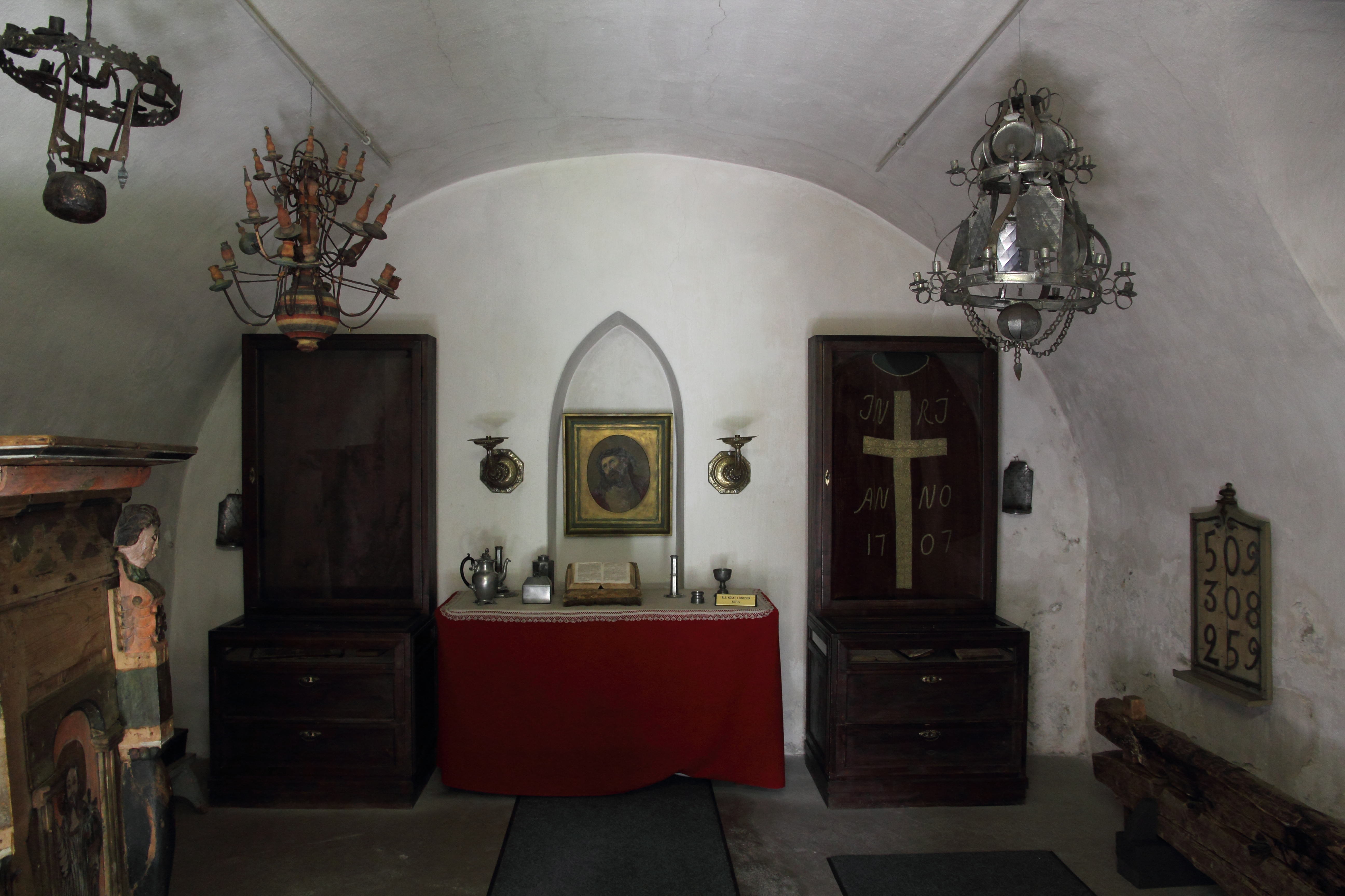 Interior of Savilahti stone sacristy in Mikkeli. The only remains of an old wooden church, the sacristy now serves as a museum.